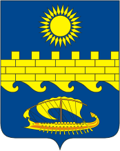 Anapa (Krasnodar krai), coat of arms